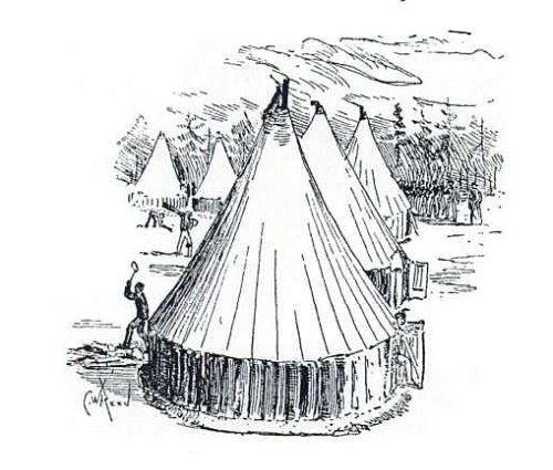 "Stockaded Sibley Tent"—illustration by Charles W. Reed, p. 192, from Chapter IX, "A Day in Camp", (Civil War, 1861-1863), pp. 164-197, of Hardtack and Coffee.